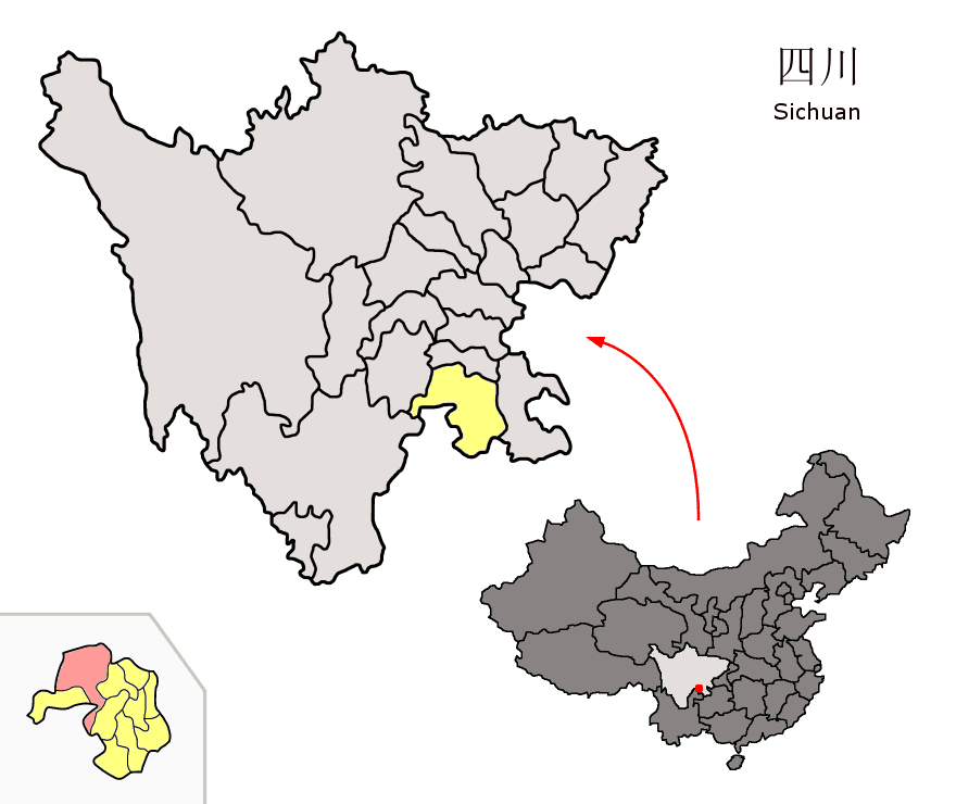 Location of Yibin County (pink) and Yibin Prefecture (yellow) within Sichuan province of China Map drawn in october 2007 using various sources, mainly : Sichuan province administrative regions GIS data: 1:1M, County level, 1990 Sichuan Counties map from